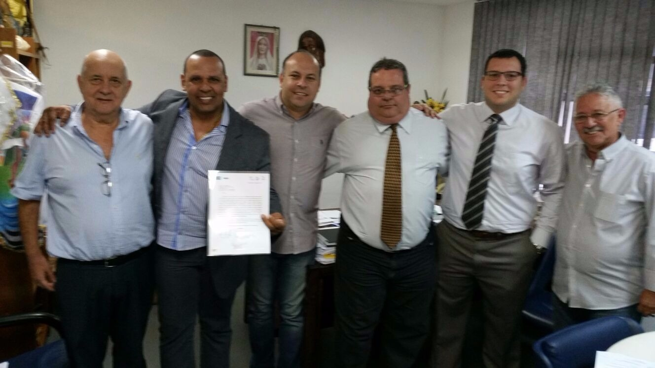 Marcos Falcon, presidente of GRES Portela.